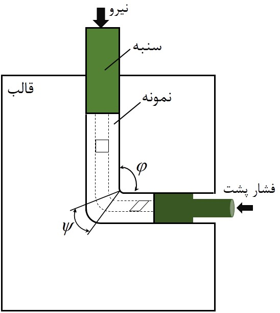 شماتیک فرآیند فشار در کانال مساوی زاویه دار همراه با فشار پشت